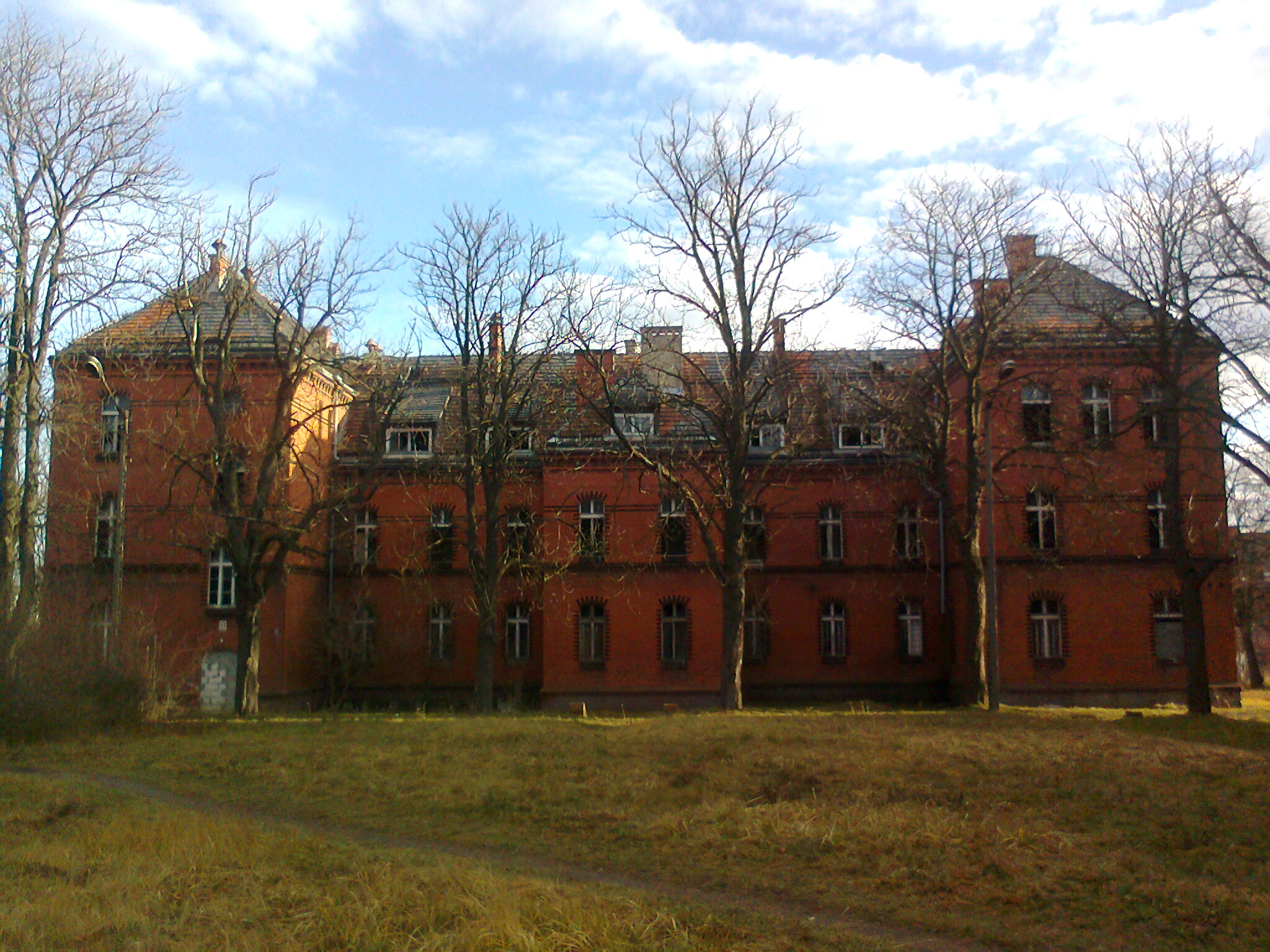 4 Włoska Street in Prudnik